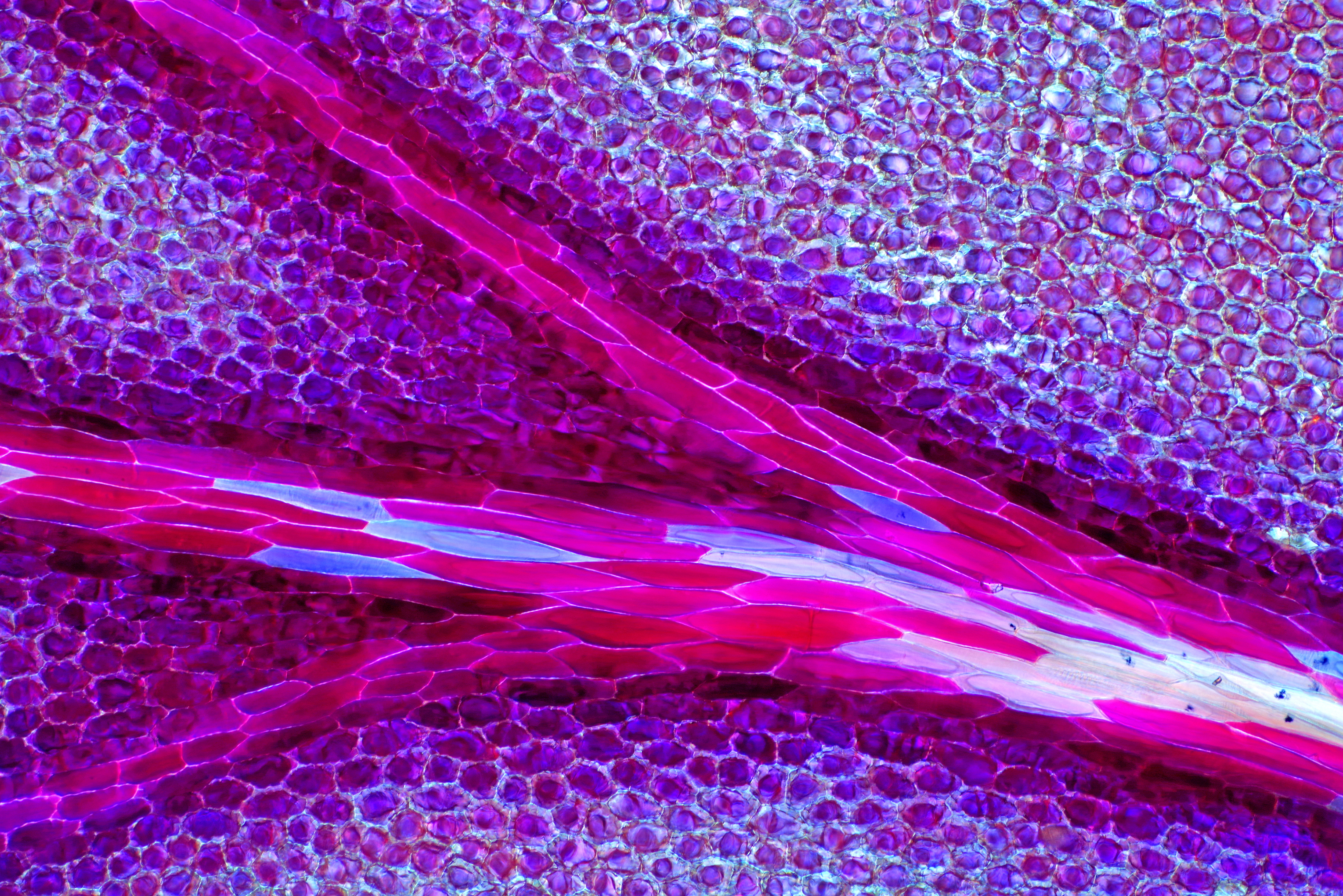 The image presents a tiny fragment of Geranium petal. Three veins are visible. Magnification is: 25X. Technique of the illumination: polarized light.